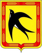 Coat of arms of Beisuzhok Vtoroi, Vyselki Raion, Krasnodar Krai, Russia.